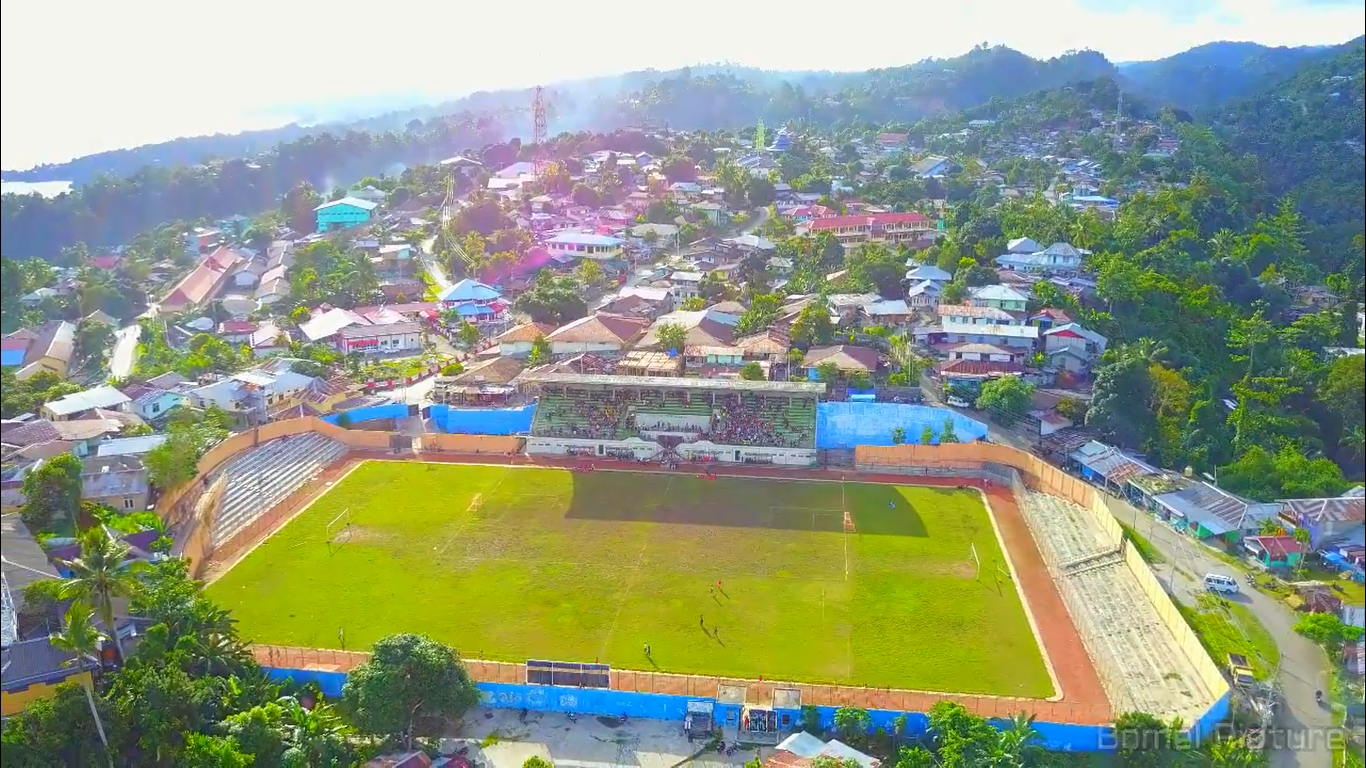 Located on Fakfak, is the home of Persifa Fakfak